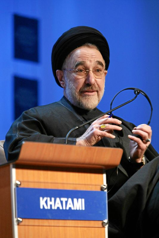 Mohammad Khatami, President of the Islamic Republic of Iran (1997-2005) captured during the workspace session 'Rules for a Global Neighbourhood in a Multicultural World' at the Annual Meeting 2007 of the World Economic Forum in Davos, Switzerland, January 25, 2007.World Economic Forum Annual Meeting Davos 2007